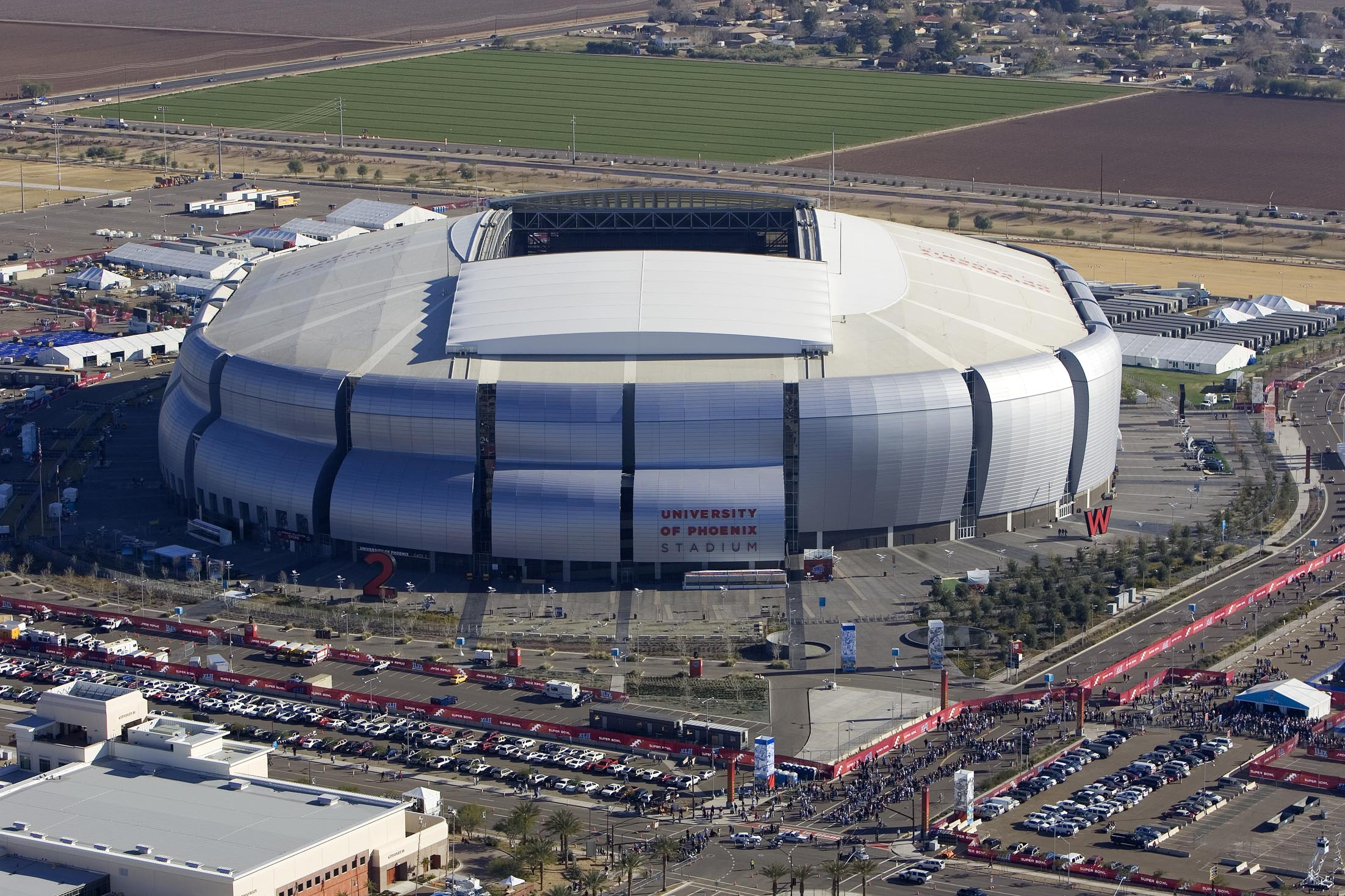 University of Phoenix stadium, site of this year’s Super Bowl, won by the New York Giants.